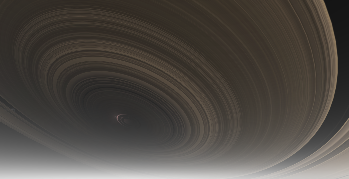 J1407b transit seen from its hypothetical exomoon in Celestia. Original ring texture by ParticleGrasp.